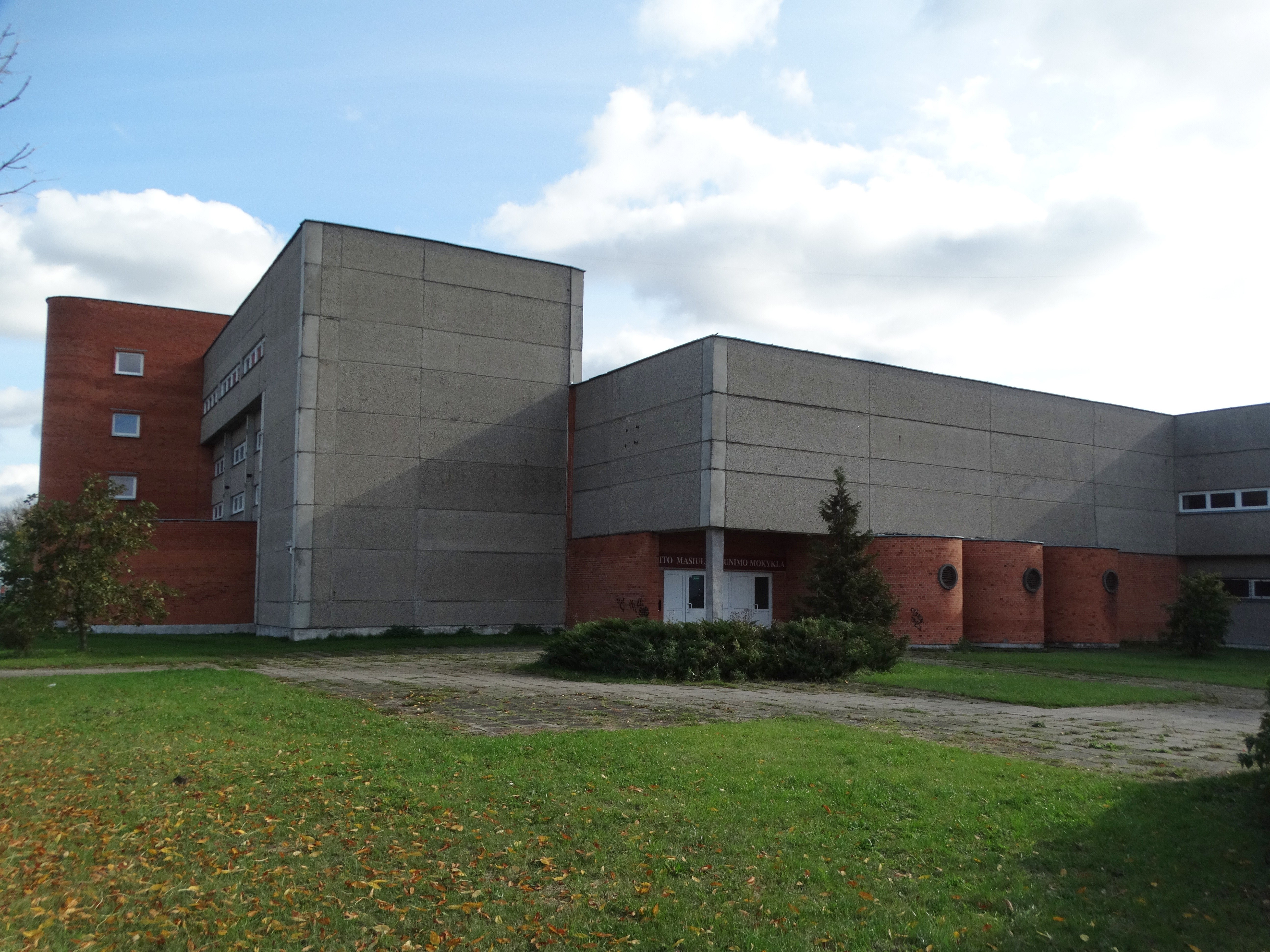 Former Titas Masiulis Youth School, Kaunas, Lithuania